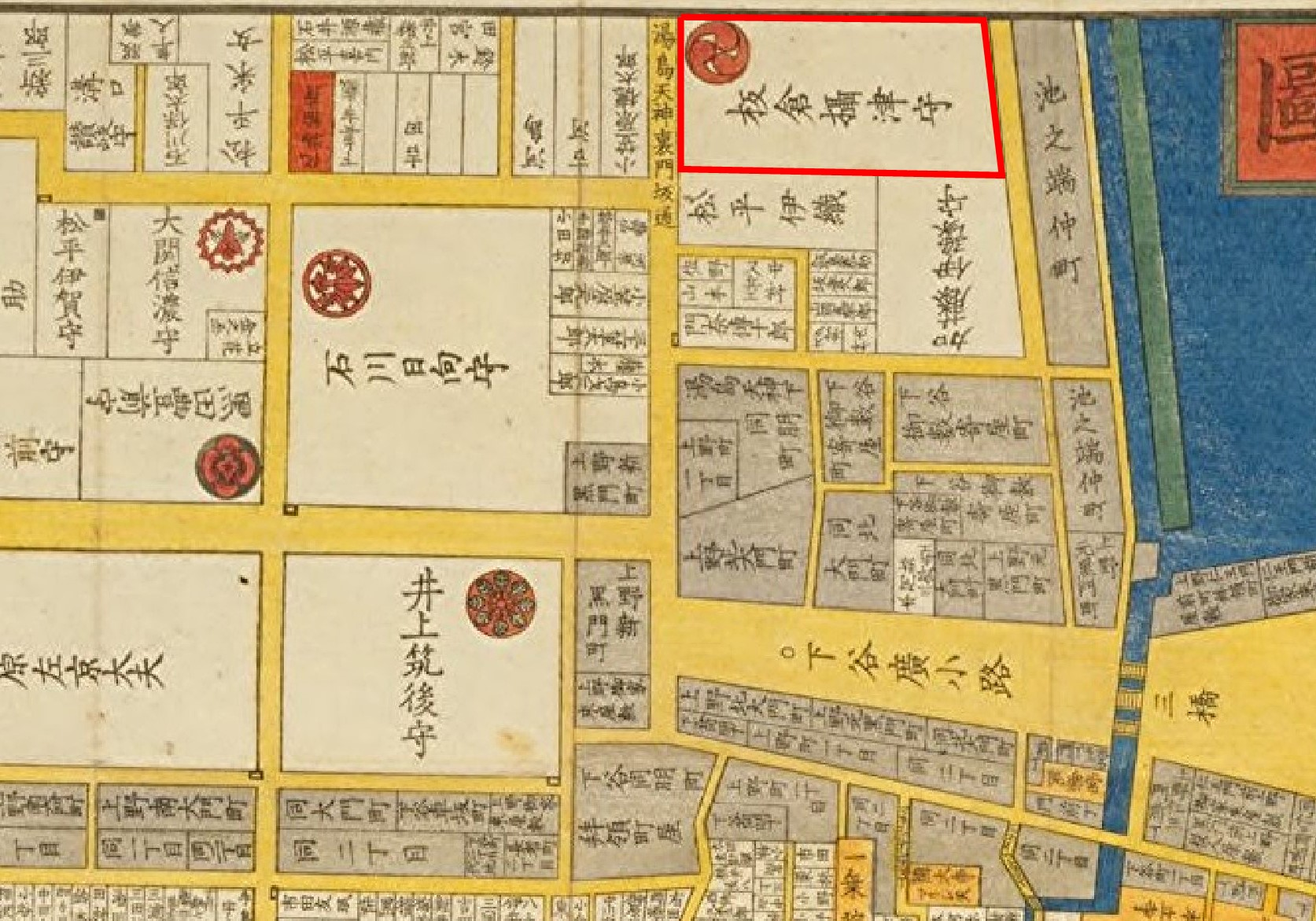 A residence of Itakura clan at Edo